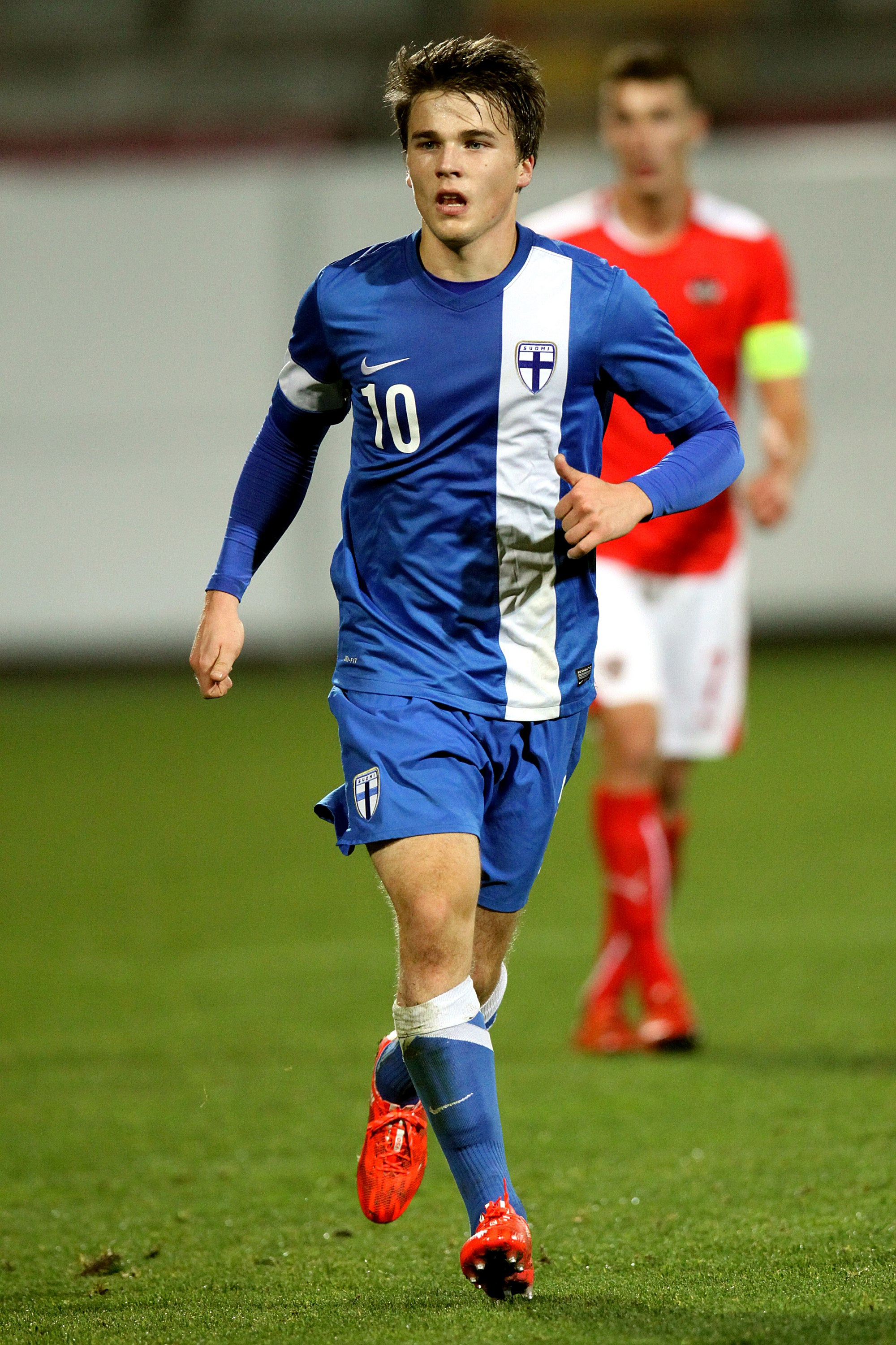 2017 UEFA European Under-21 Championship qualification – Austria U-21 (red shirts) vs. :en:Finland national under-21 football team |Finnland U-21 (blue shirts) 2-0 (0-0) – 2015-11-13 in Vienna, Austria Arena – The photo shows Simon Skrabb.